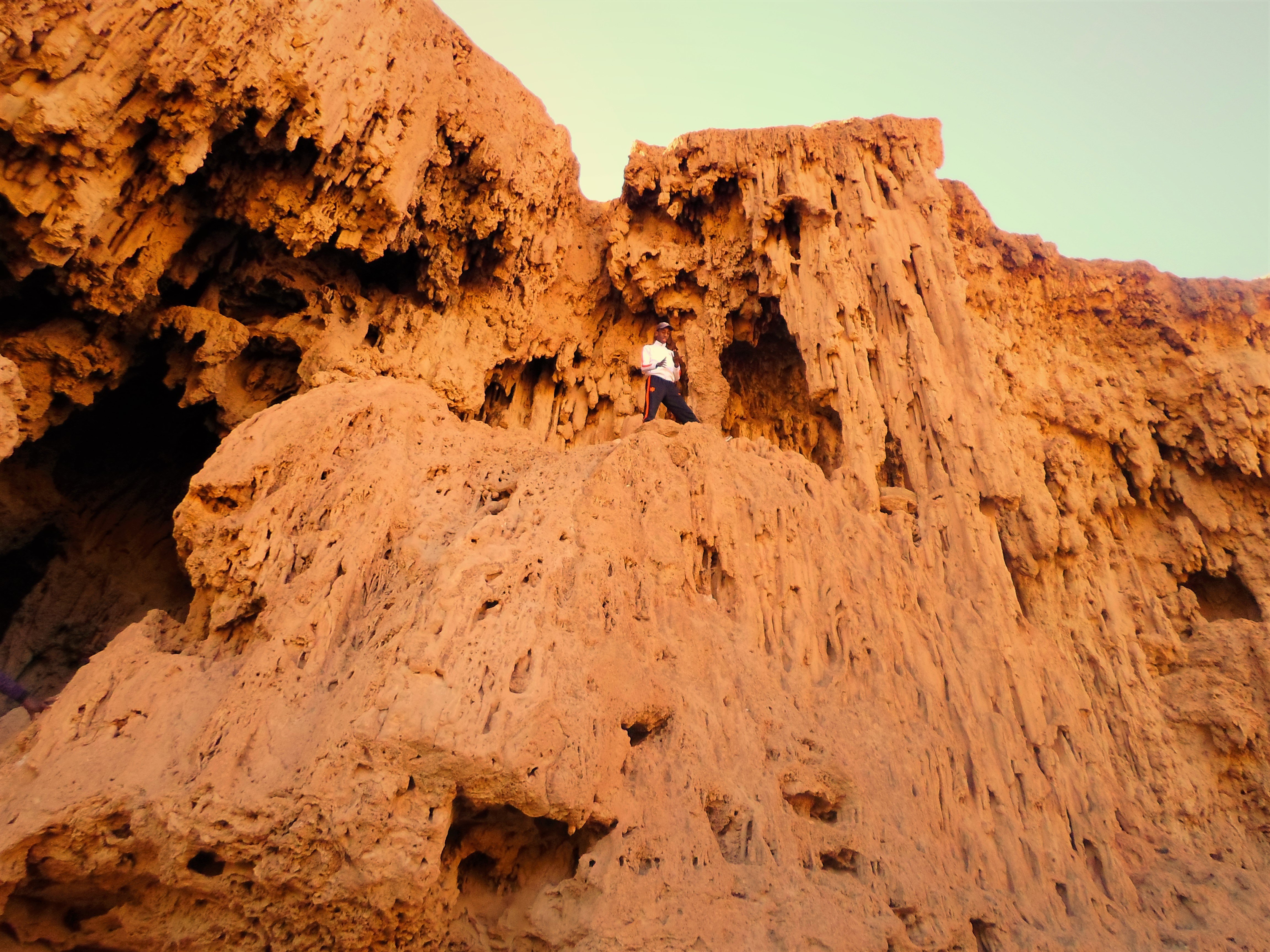 From Messalit caves in TATA the south of Morocco.